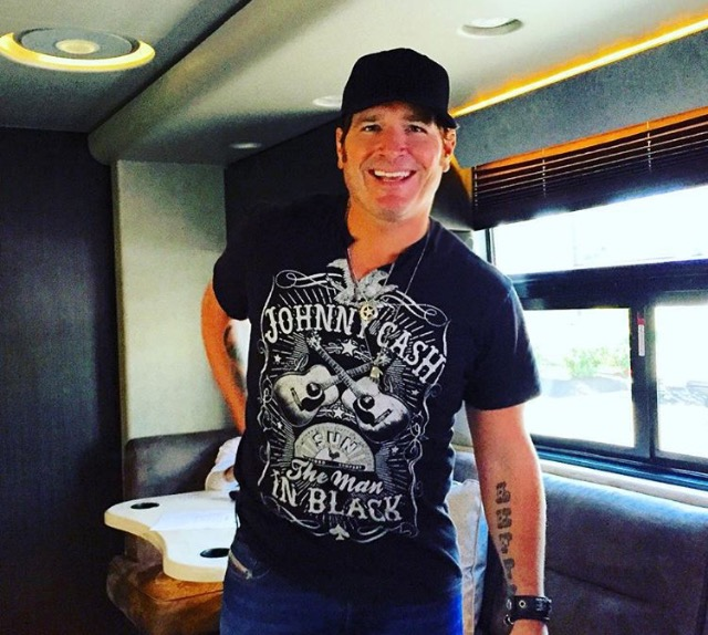 Jerrod Niemann on tour bus